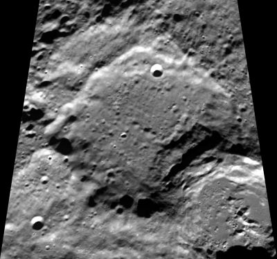 Milankovič lunar crater - Clementine image